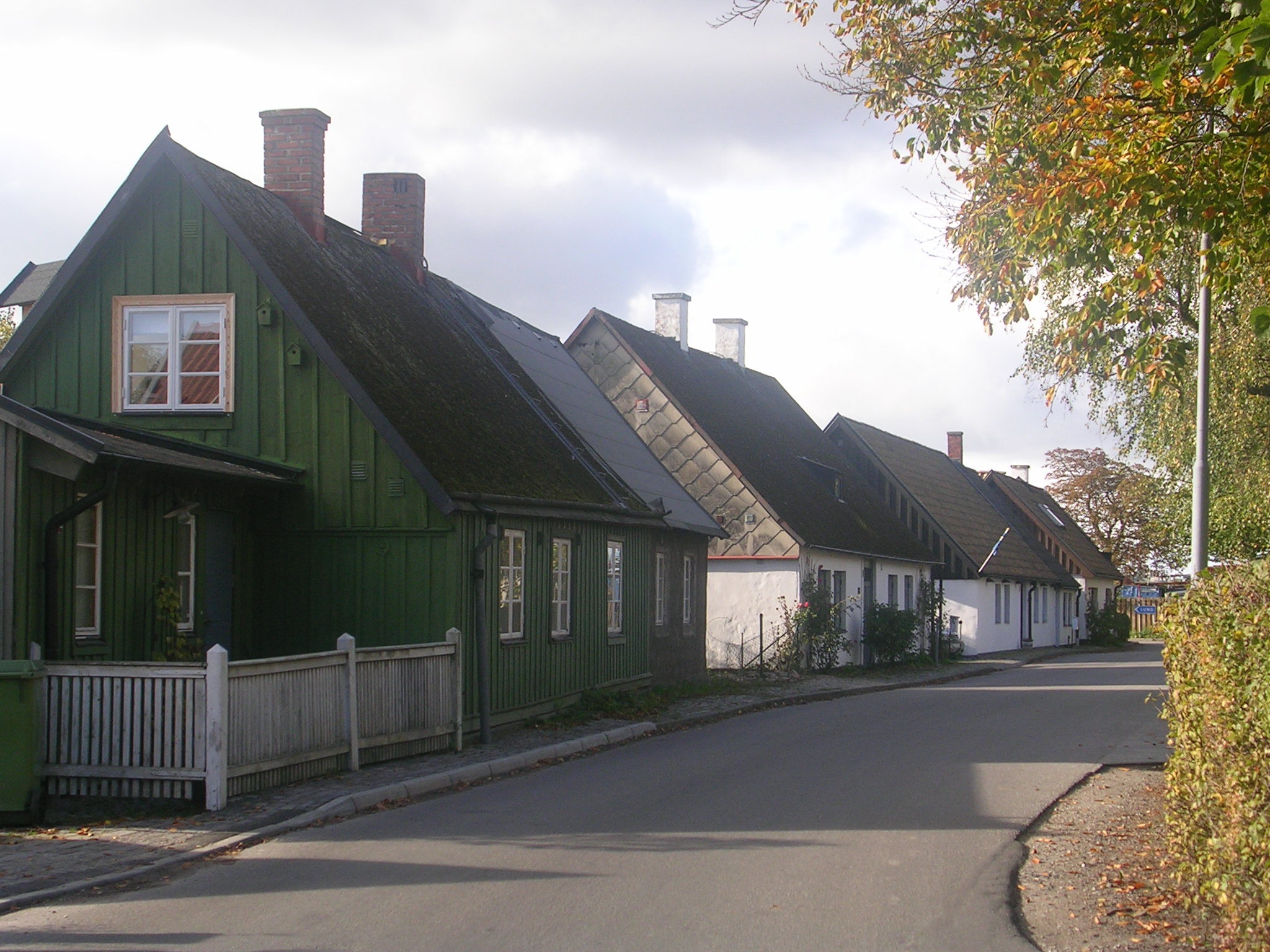 The village Stora Råby outside Lund, Sweden.